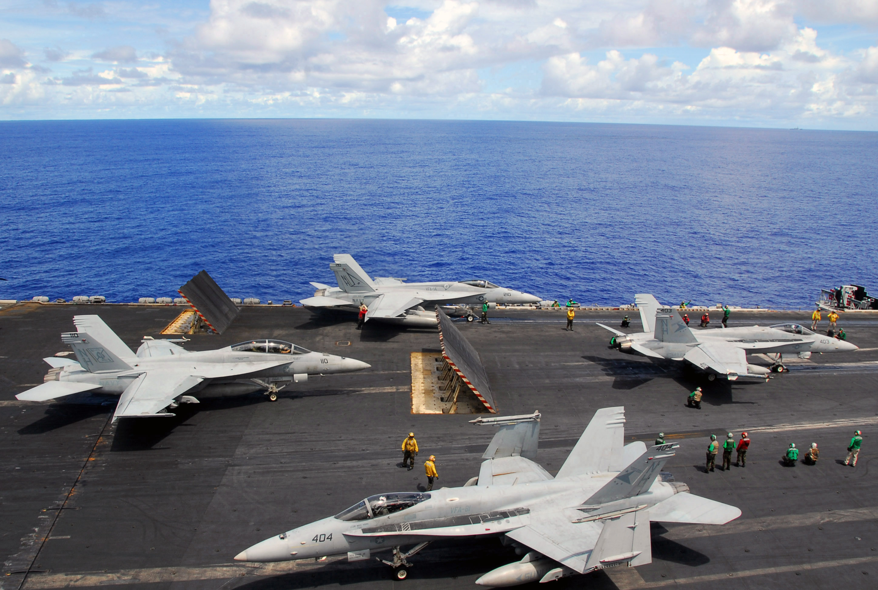 PACIFIC OCEAN (Aug. 9, 2007) - A group of F/A-18 Hornets and Super Hornets attached to Carrier Air Wing (CVW) 11 prepare to launch off the flight deck of the nuclear-powered aircraft carrier USS Nimitz (CVN 68). The Nimitz Carrier Strike Group (CSG) and embarked (CVW) 11 are deployed in the U.S. 7th Fleet area of operations, participating in exercise Valiant Shield 2007. Valiant Shield the largest joint exercise in recent history, includes 30 ships, more than 280 aircraft and more than 20,000 service members from the Navy, Marine Corps, Air Force and Coast Guard. U.S. Navy photo by Mass Communication Specialist 3rd Class Eduardo Zaragoza (RELEASED)